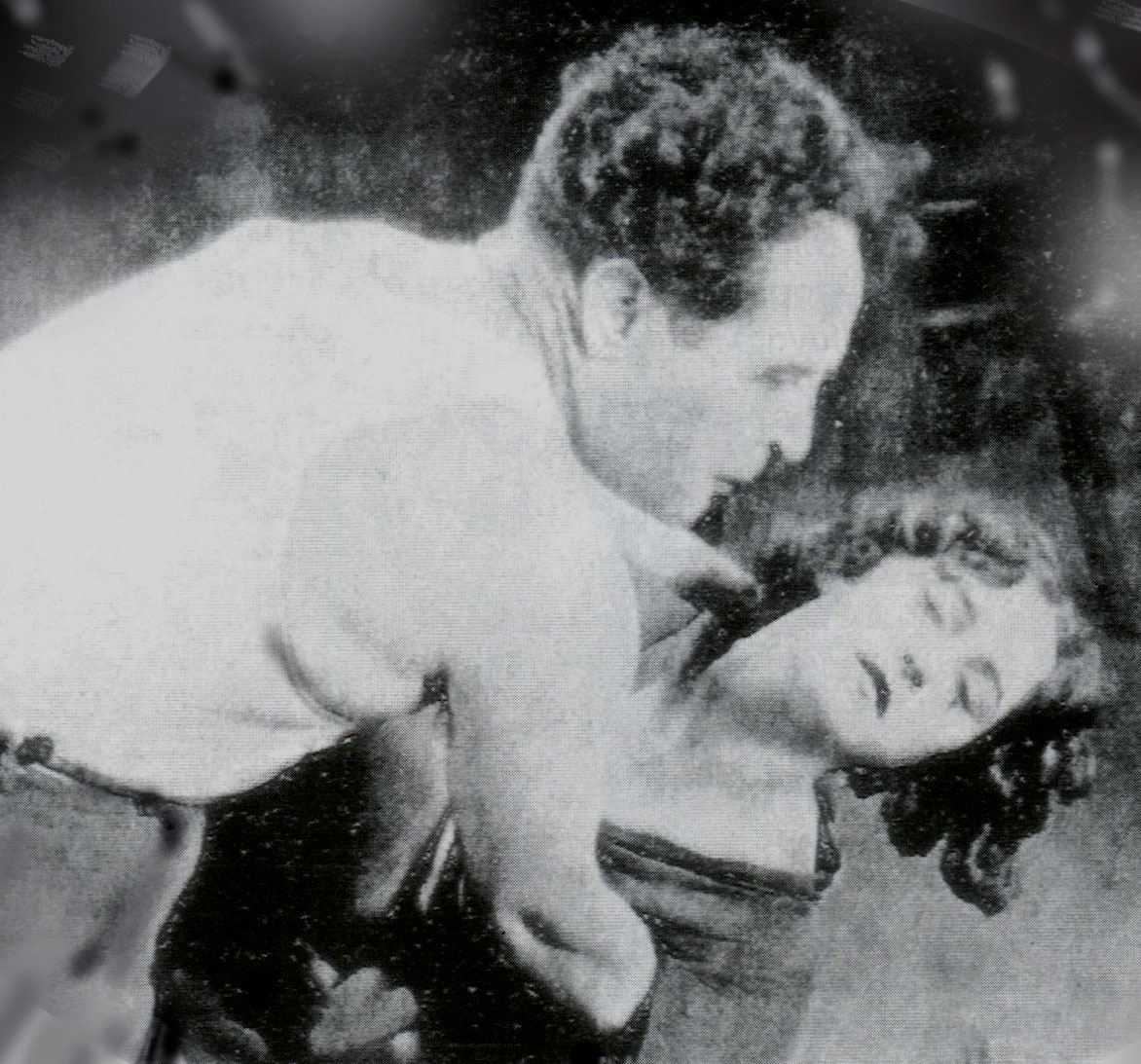 Mese mariano (Pittei 1929) prod Caesar Film - foto scena con Febo Mari e Rina De Liguoro